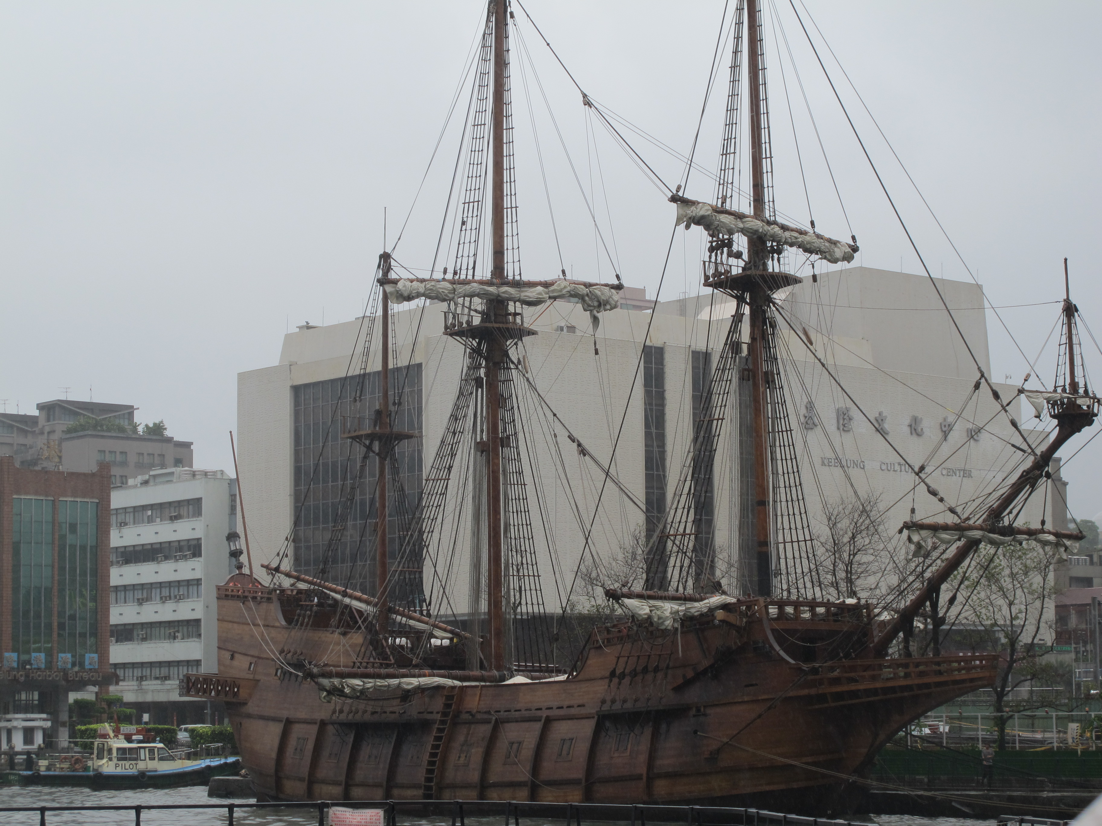 Galeón Andalucía in the Port of Keelung, Taiwan.